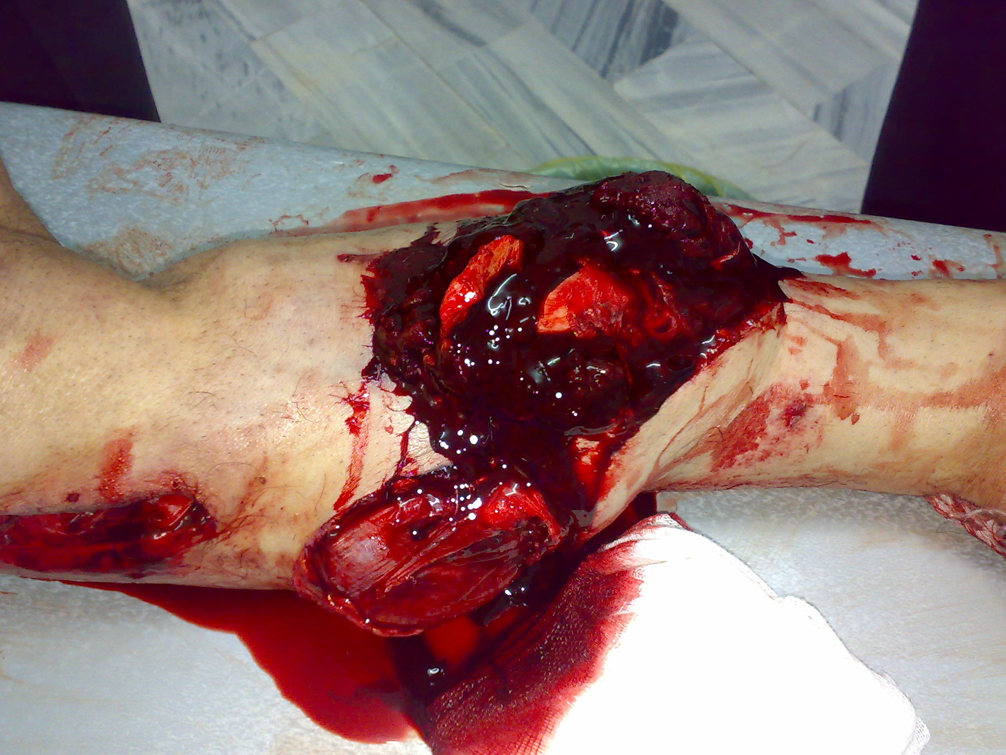 Open fracture( in Tibia): When broken bones break through the skin, they are called open or compound fractures. For example, when a pedestrian is struck by the bumper of a moving car, the broken tibia may protrude through a tear in the skin and other soft tissues.